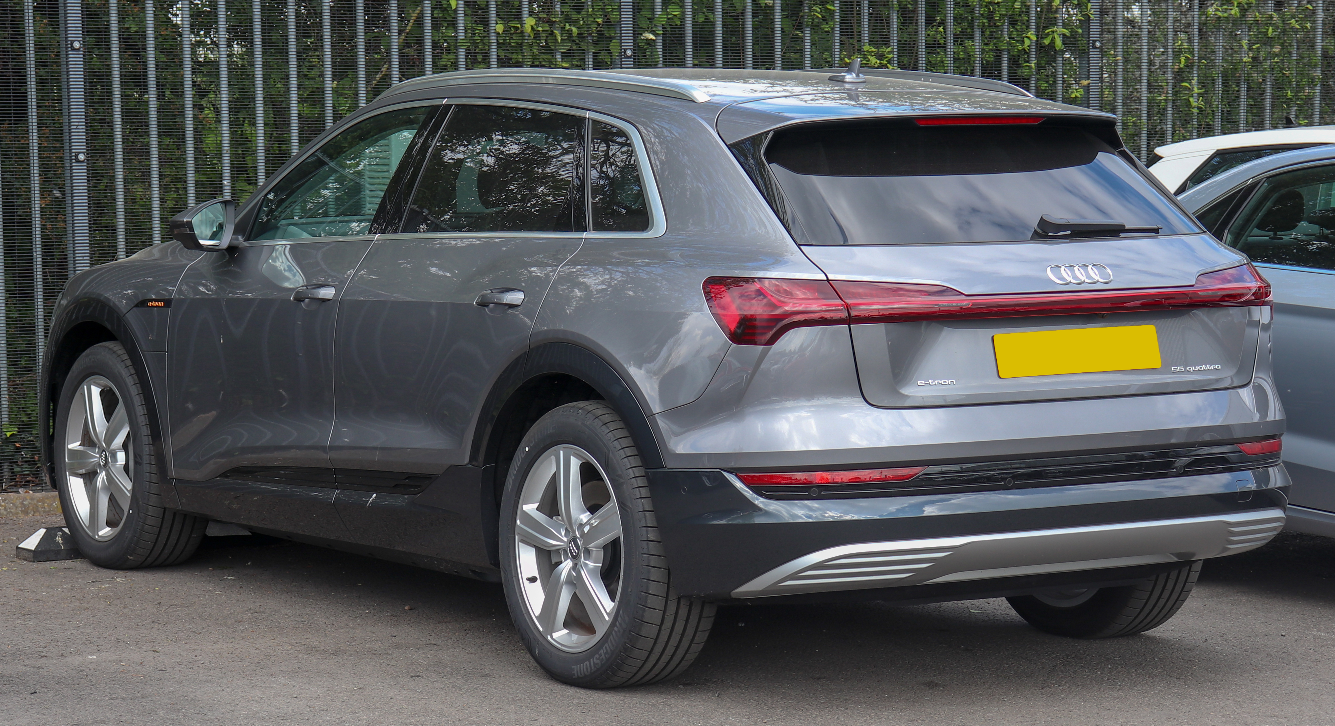 2019 Audi e-Tron 55 Quattro Rear Taken in Stratford-upon-Avon